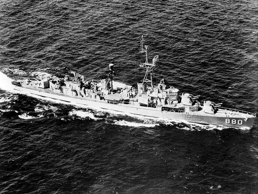 The U.S. Navy destroyer USS Dyess (DDR-880) underway on 15 January 1962, while serving with the U.S. Sixth Fleet in the Mediterranean Sea.